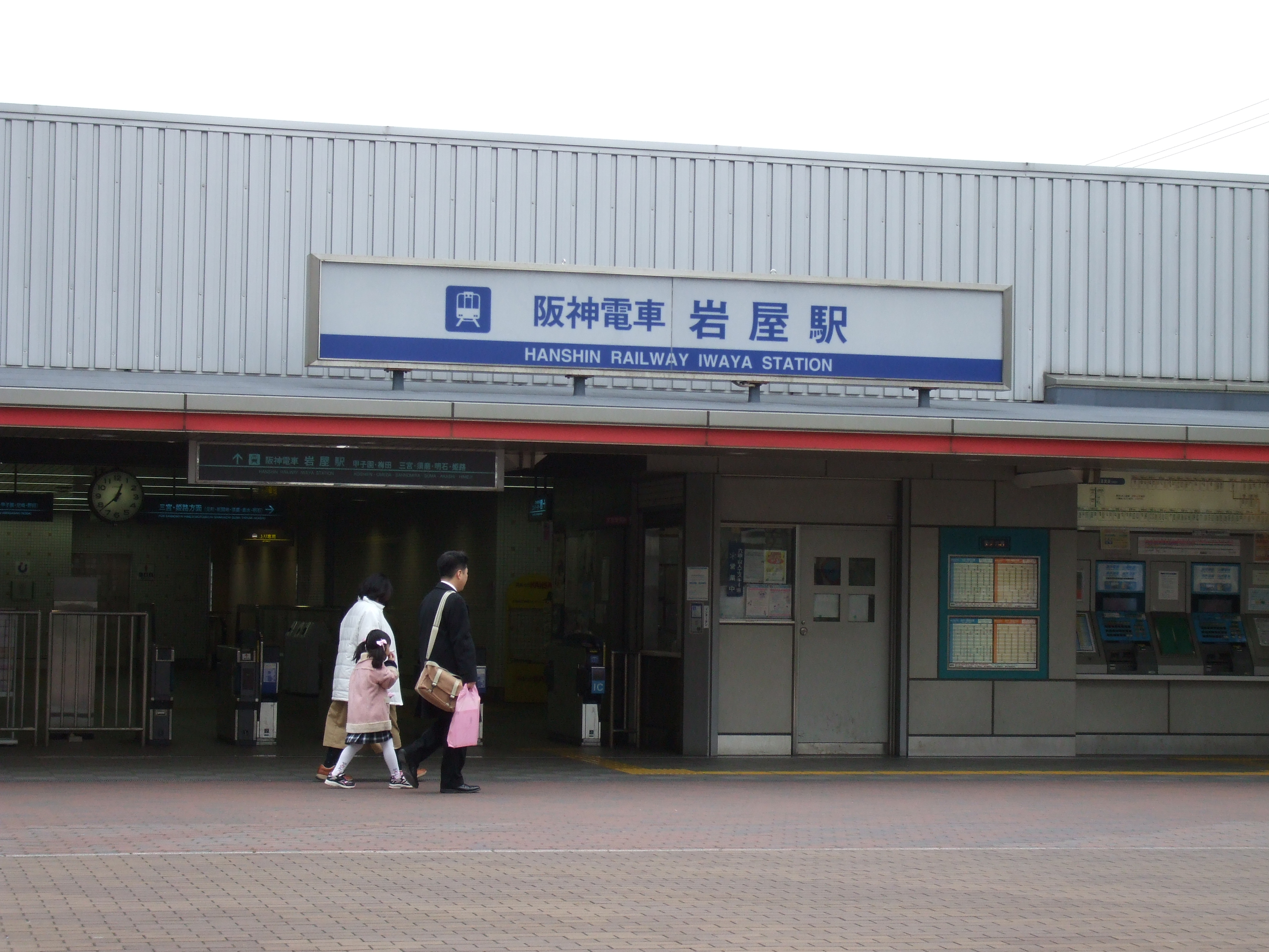 Iwaya Station, Nada-ku, Kobe, Japan